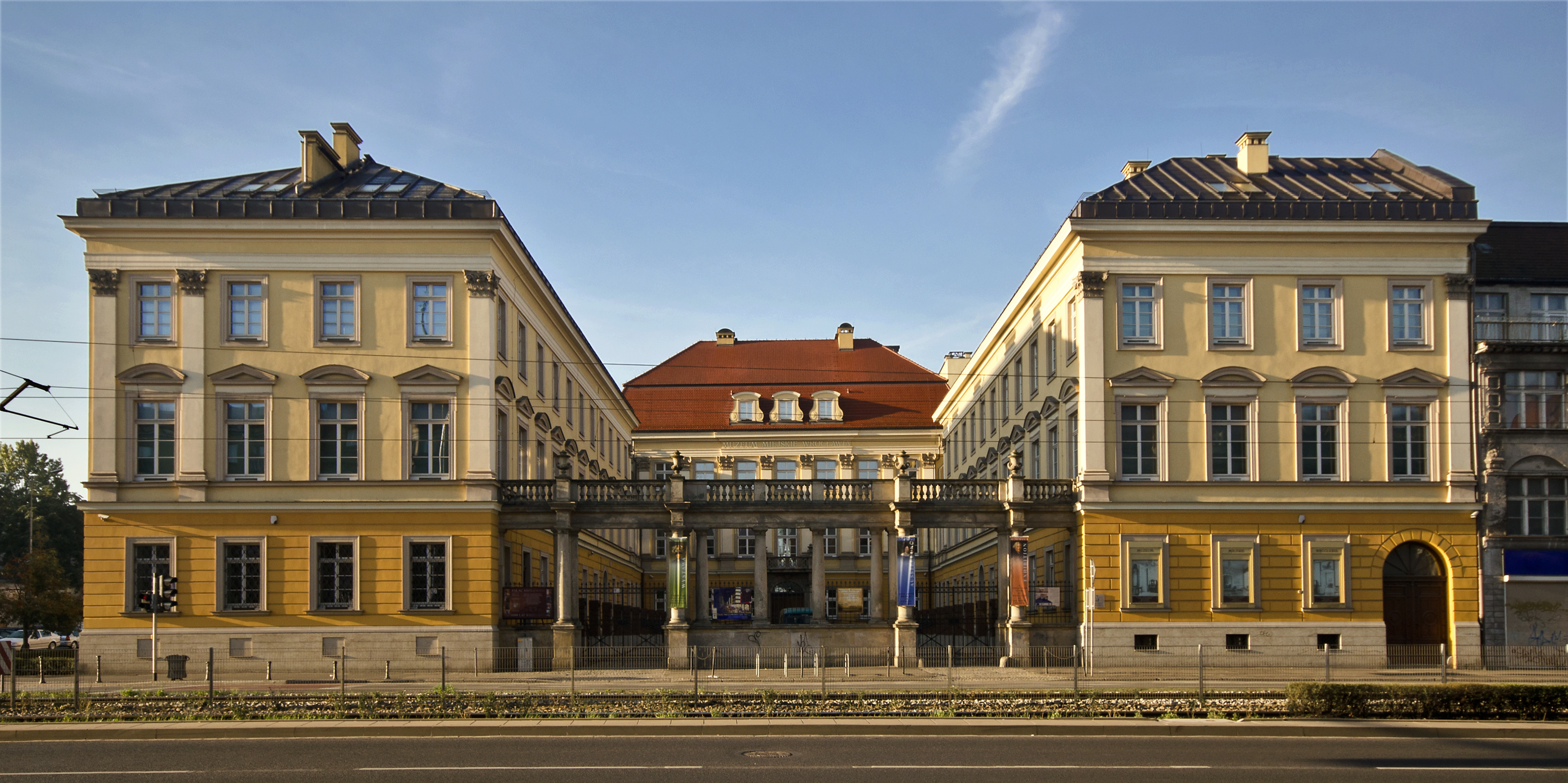 Royal Palace of Wrocław, on ul. Kazimierza Wielkiego 35.